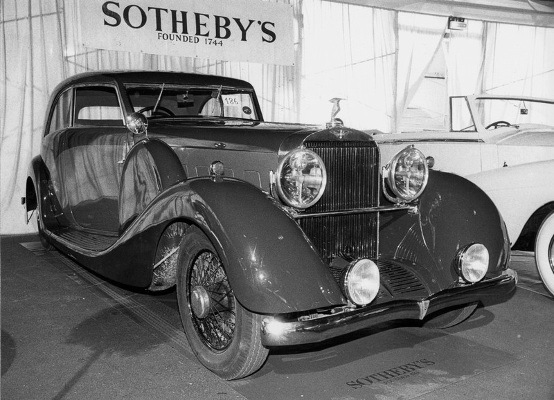 Hispano J12 1933 coach Pourtout - Sotheby's 1989, vendue 1.750.000 Francs